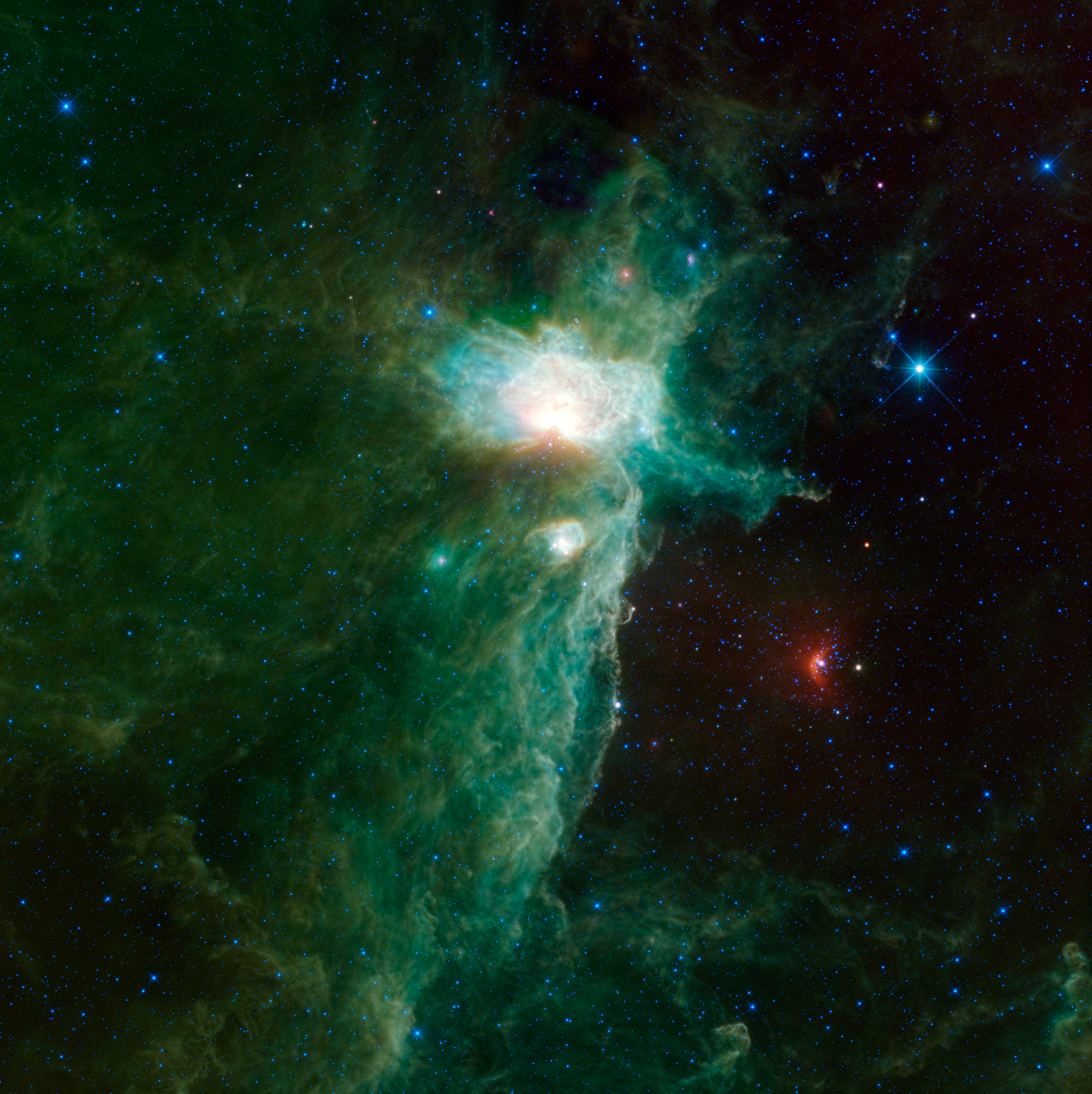 The Flame Nebula and surrounding region. The bright isolated star is Alnilam. Alnitak is difficult to see within the bright nebulosity of the Flame Nebula. The Horsehead Nebula is barely visible at the centre of the image. NGC 2023 is much clearer at these wavelengths, it is the small bright patch of nebulosity just below the Flame Nebula. The red arc surrounds σ Orionis. In this WISE image, blue represents 3.4 microns, cyan is 4.6 microns, green is 12 microns, and red is 22 microns.